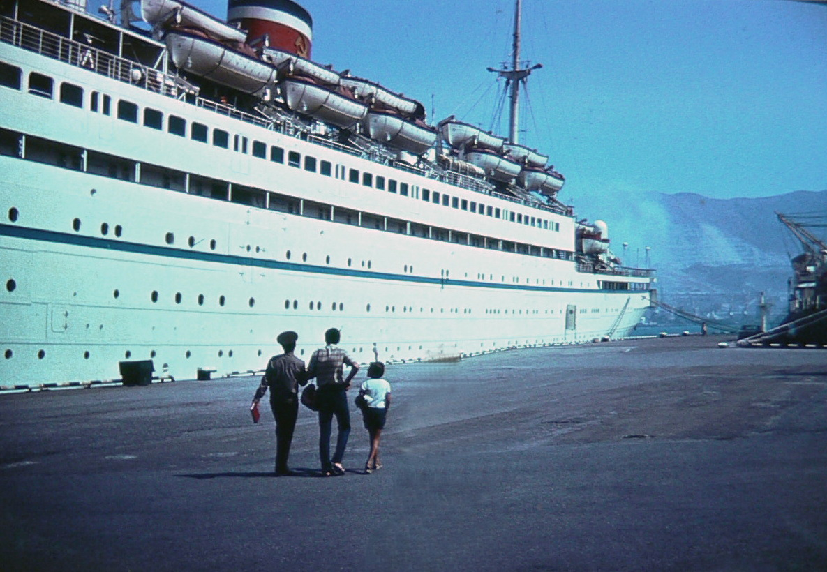 Last day of steamship Admiral Nakhimov in Port of Novorossiysk before disaster 31 August 1986